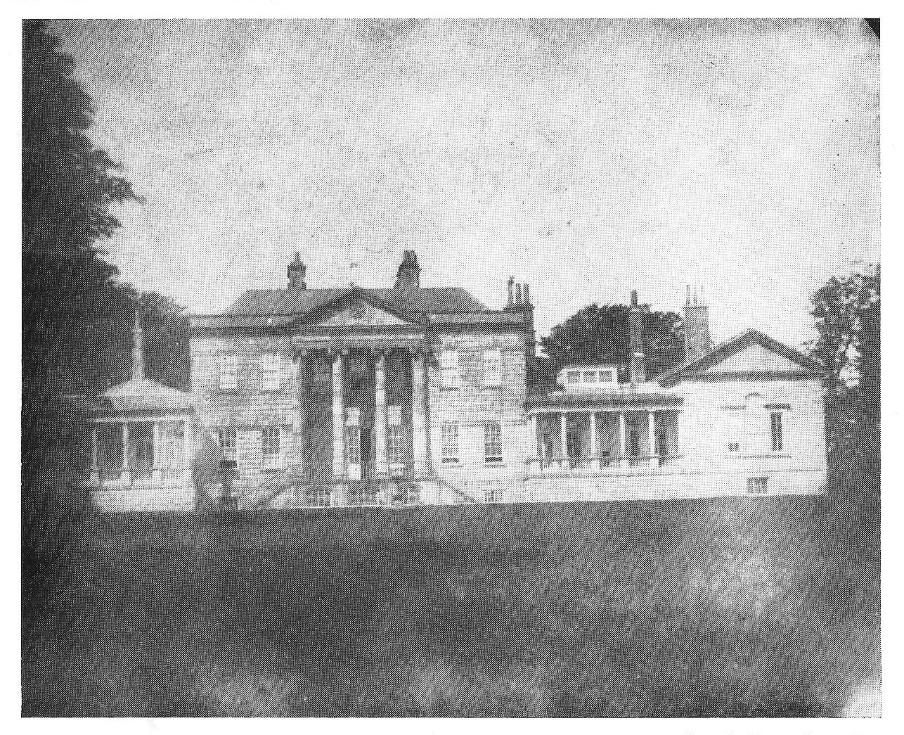 Carclew House, Cornwall: photograph by W. H. Fox Talbot. The original is in the Science Museum.